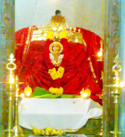 arunachaleswar